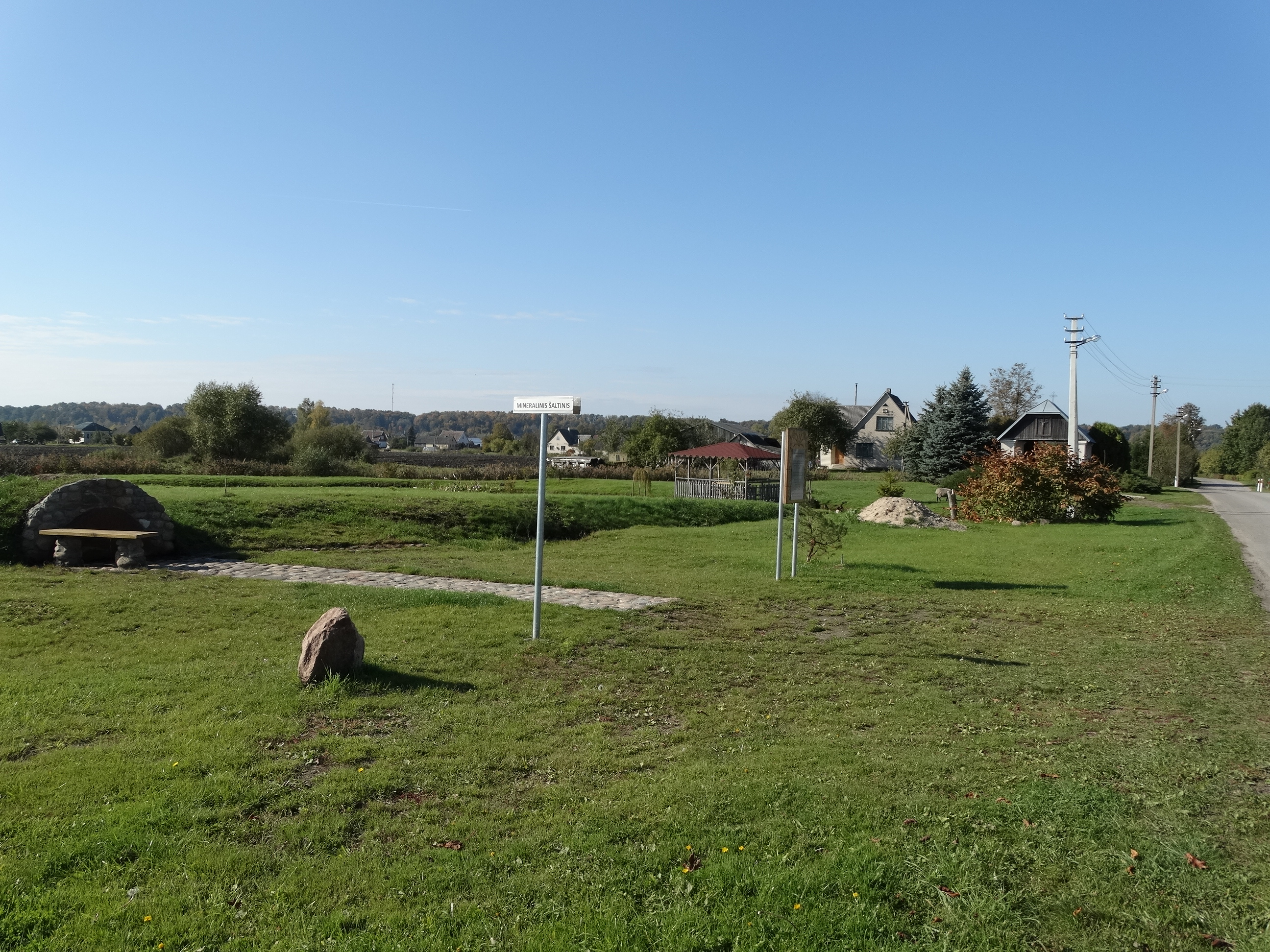 Spring, Darsūniškis, Kaišiadorys District, Lithuania